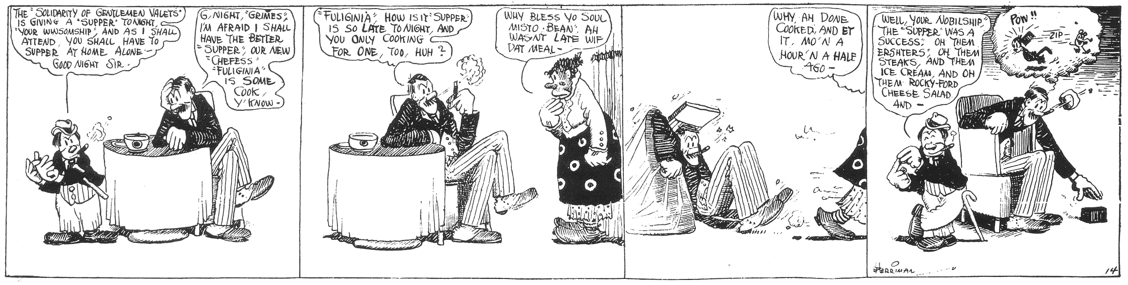 Daily Baron Bean comic strip (Friday, April 14, 1916, subtitled "We Fear Grimes's Employer Is a Bit Peevish") by George Herriman